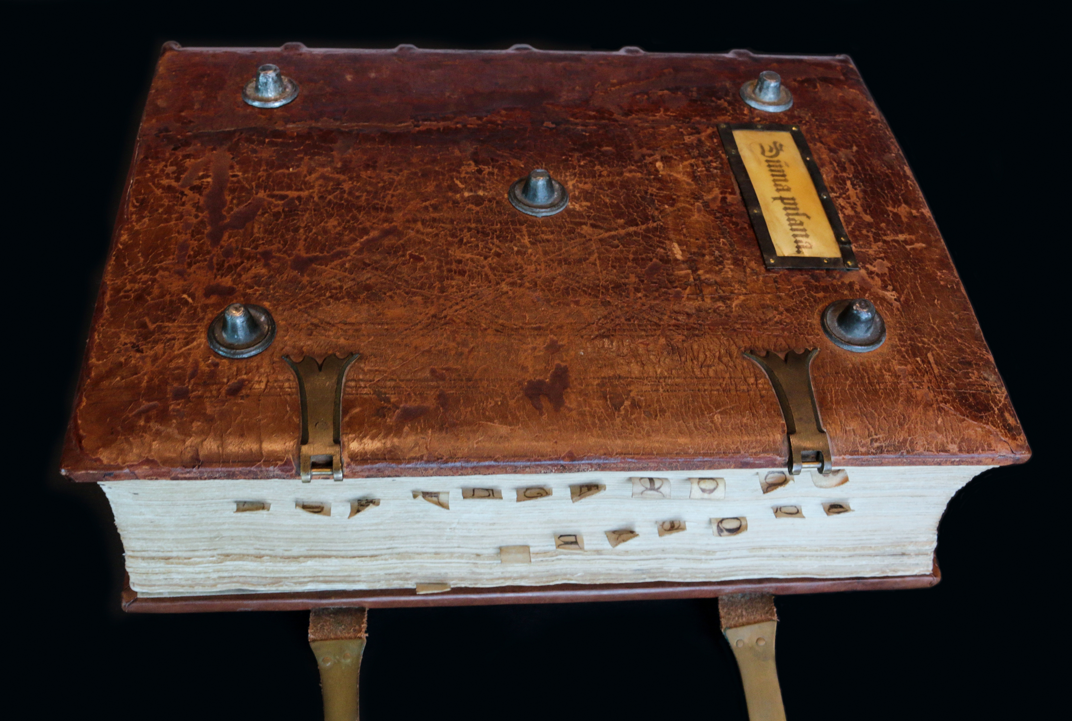 Ms.146 (4 D 6), binding